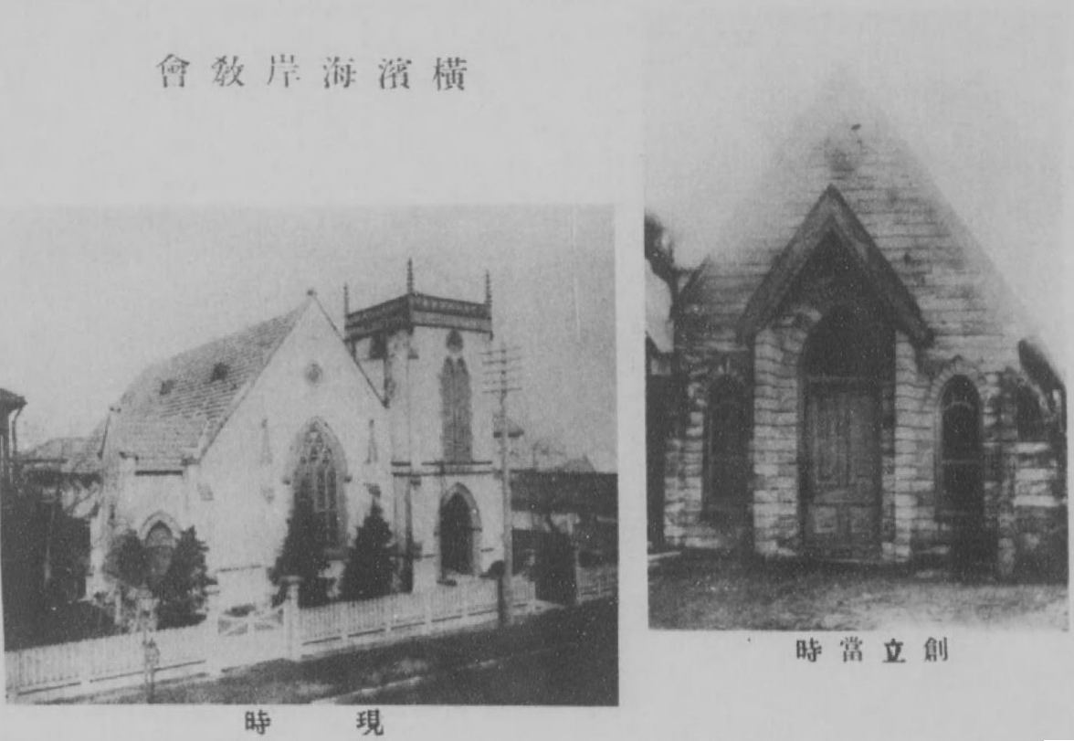 Yokohama Kaigan Church.